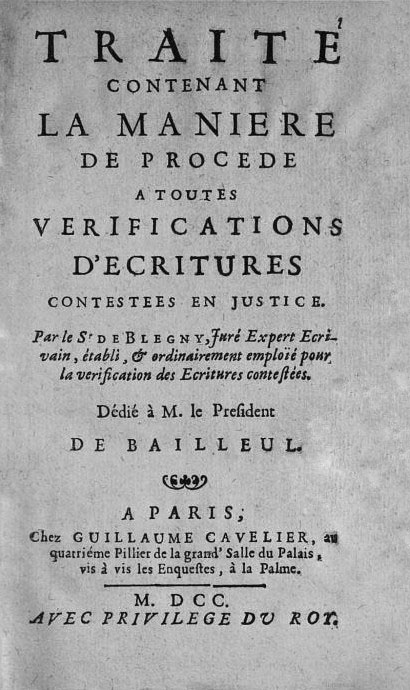 Title page of Blegny's Traité (1700)